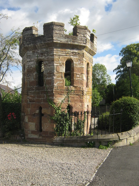 This castle folley is said to have been built from the stones of Dingwall Castle. It is located on the site of the original castle.